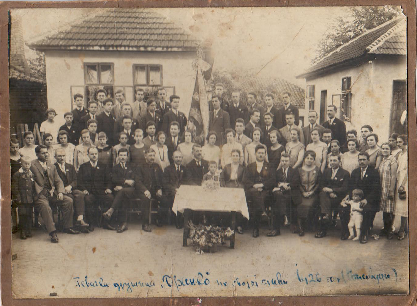 Choir Branko Српски (ћирилица): Хор Бранко